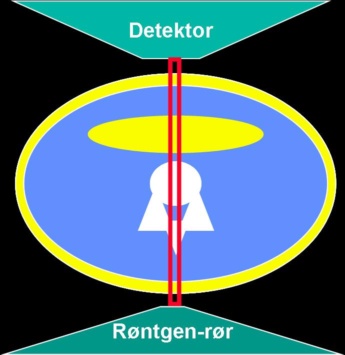 The principle of dual energy X-ray absorptiometry